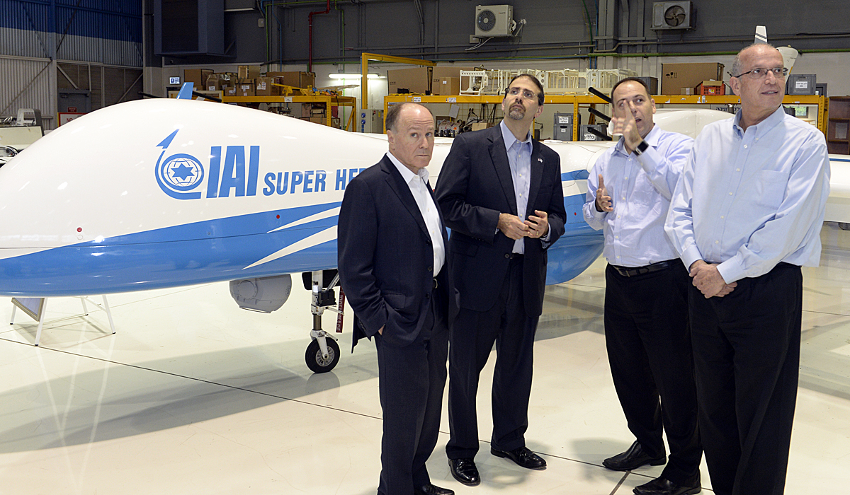 Visit to IAI